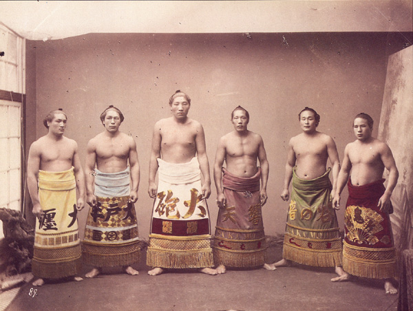 taken in Japan in 1896, therefore public domain by Japanese law